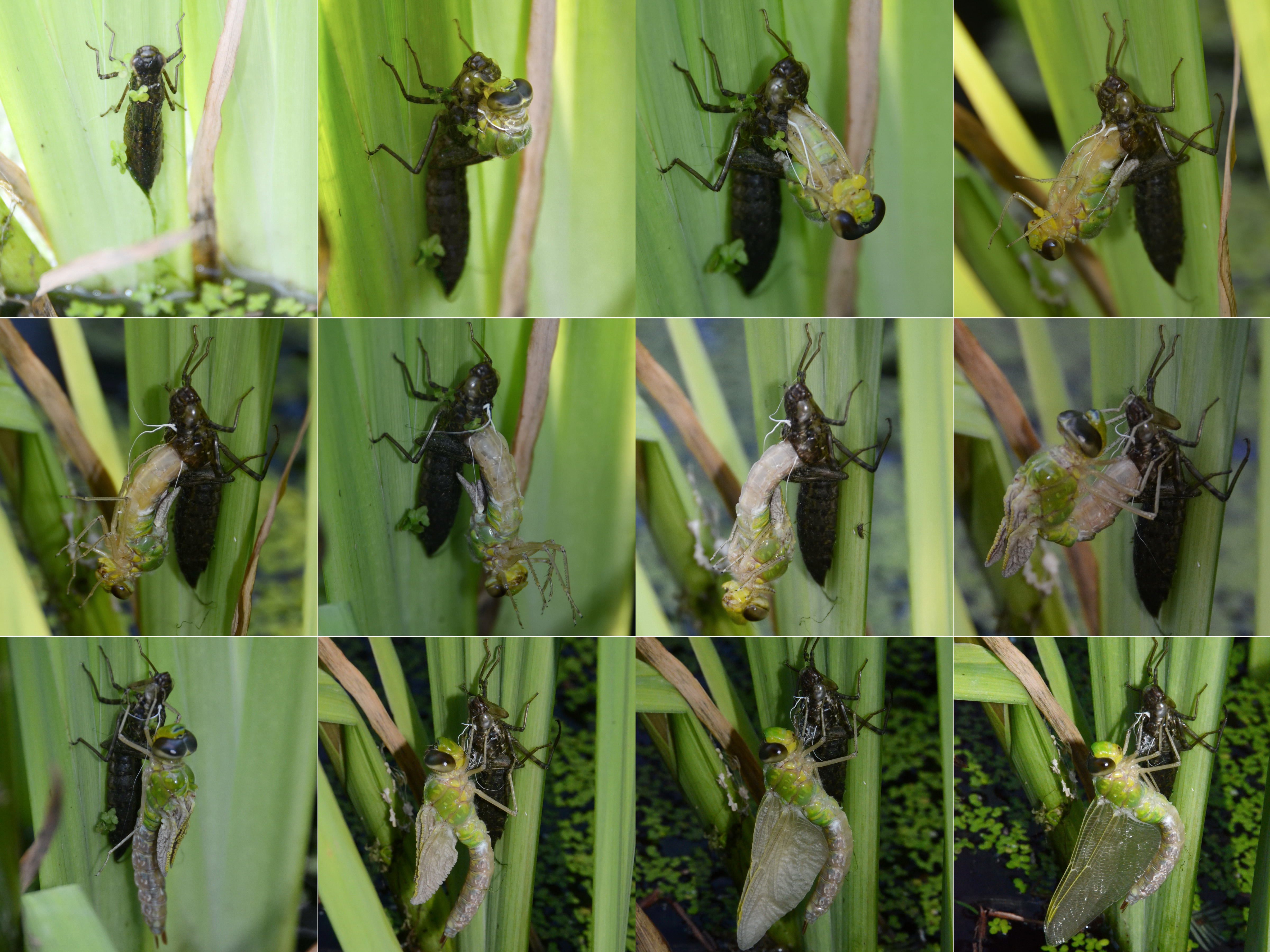 The metamorfose from a waternymf to a dragonfly in several hours time in the evening in a little pond at Schaarsbergen